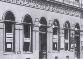 facade of Tavern owned by Anton Dreher.